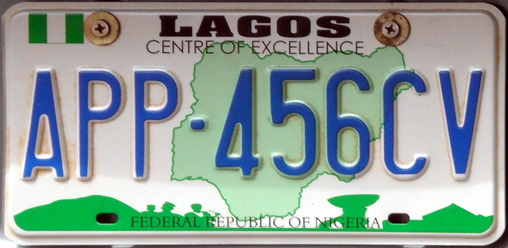 First time I saw one, I thought for sure it was an American plate. The whole style is very North American, and it's interesting the plate reads Lagos, and Nigeria is small at the bottom. Lagos is one of the main cities. I think they must have a lot of North American cars like this first generation Toyota Sienna. Weirdly I saw another Nigerian registered Sienna in the same town on the same day!